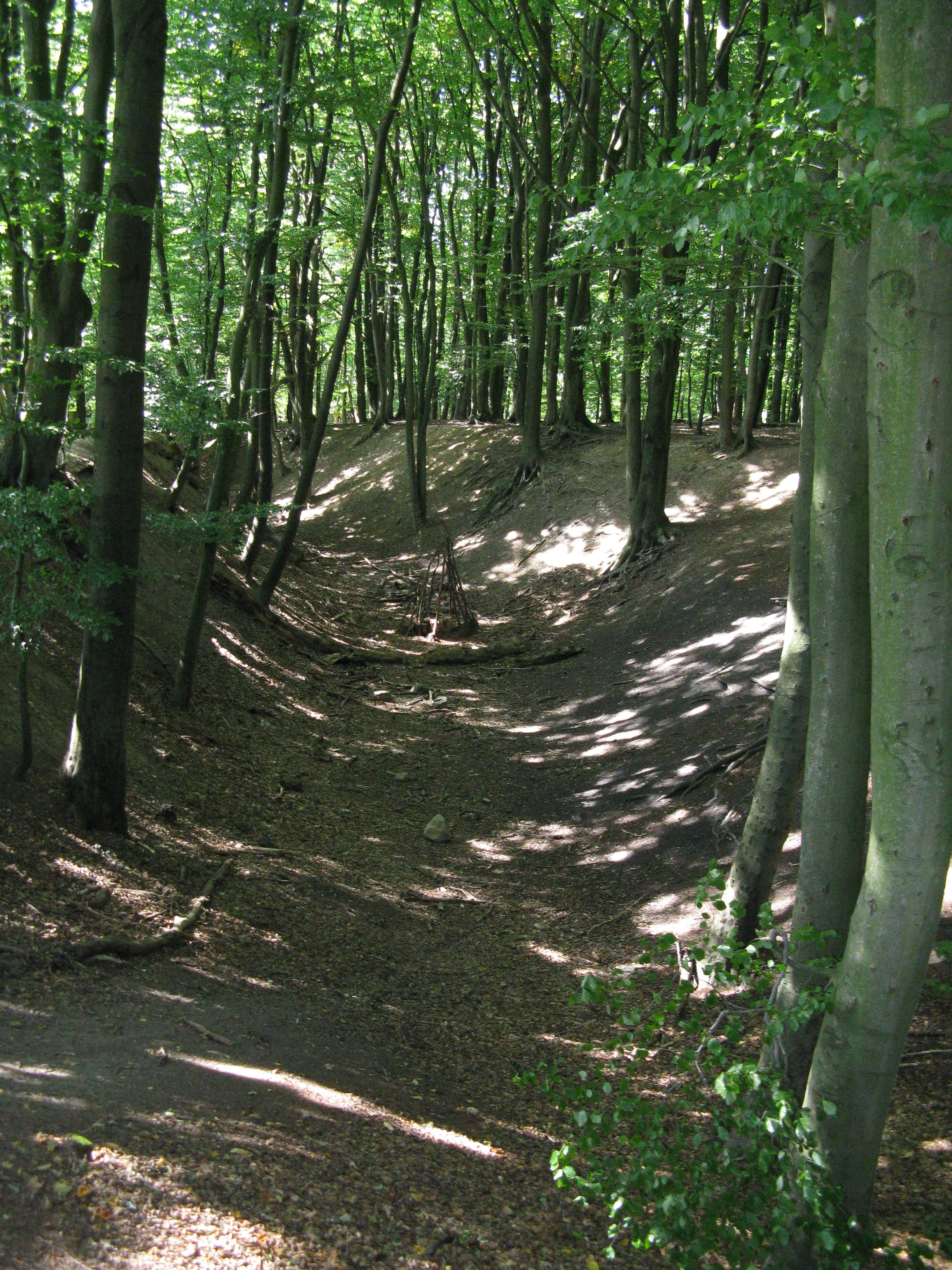 Belm: rest of open-cast mining for black chalk in Vehrte